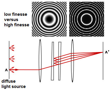 Author: User:Stigmatella aurantiaca